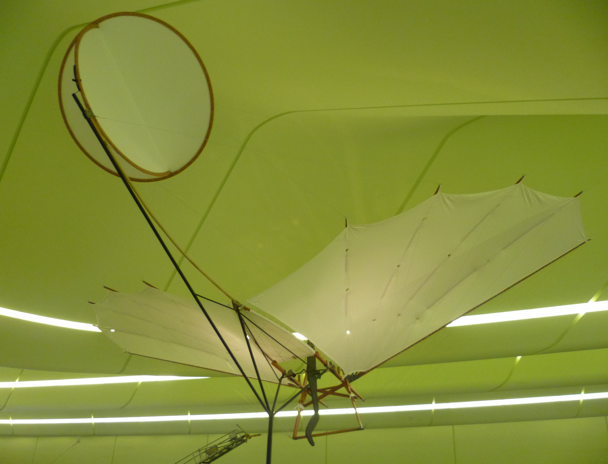 Replica of Percy Pilcher's 1895 glider, the Bat, built by aviation enthusiasts in 2007 and now displayed in Glasgow's Riverside Museum